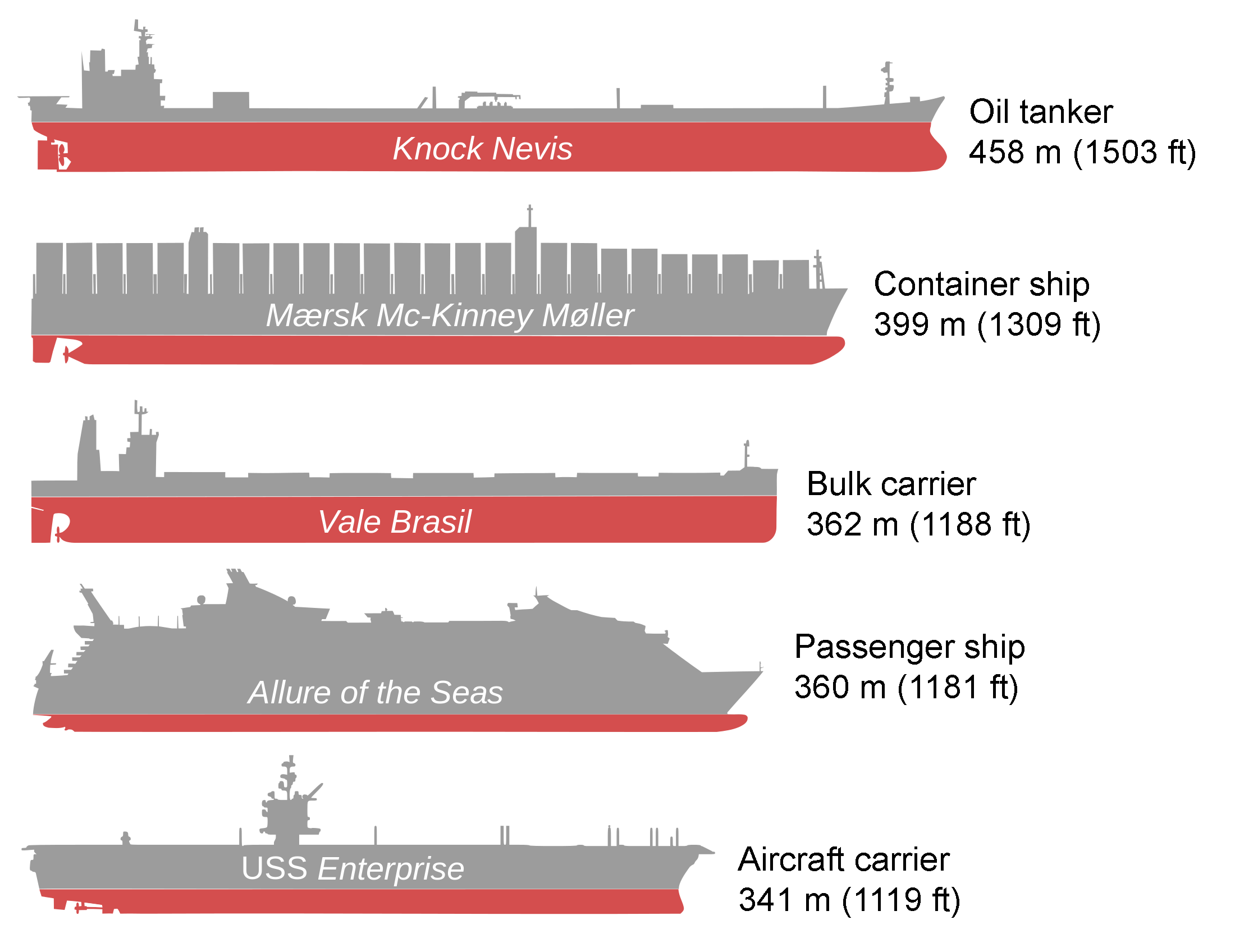 Derived from File:Bateaux comparaison2 with Allure.svg